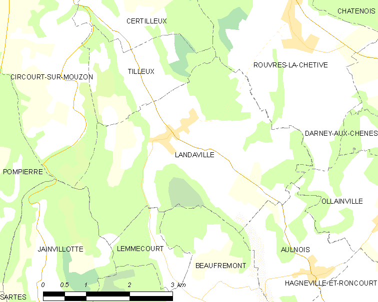 Map of French municipality Landaville